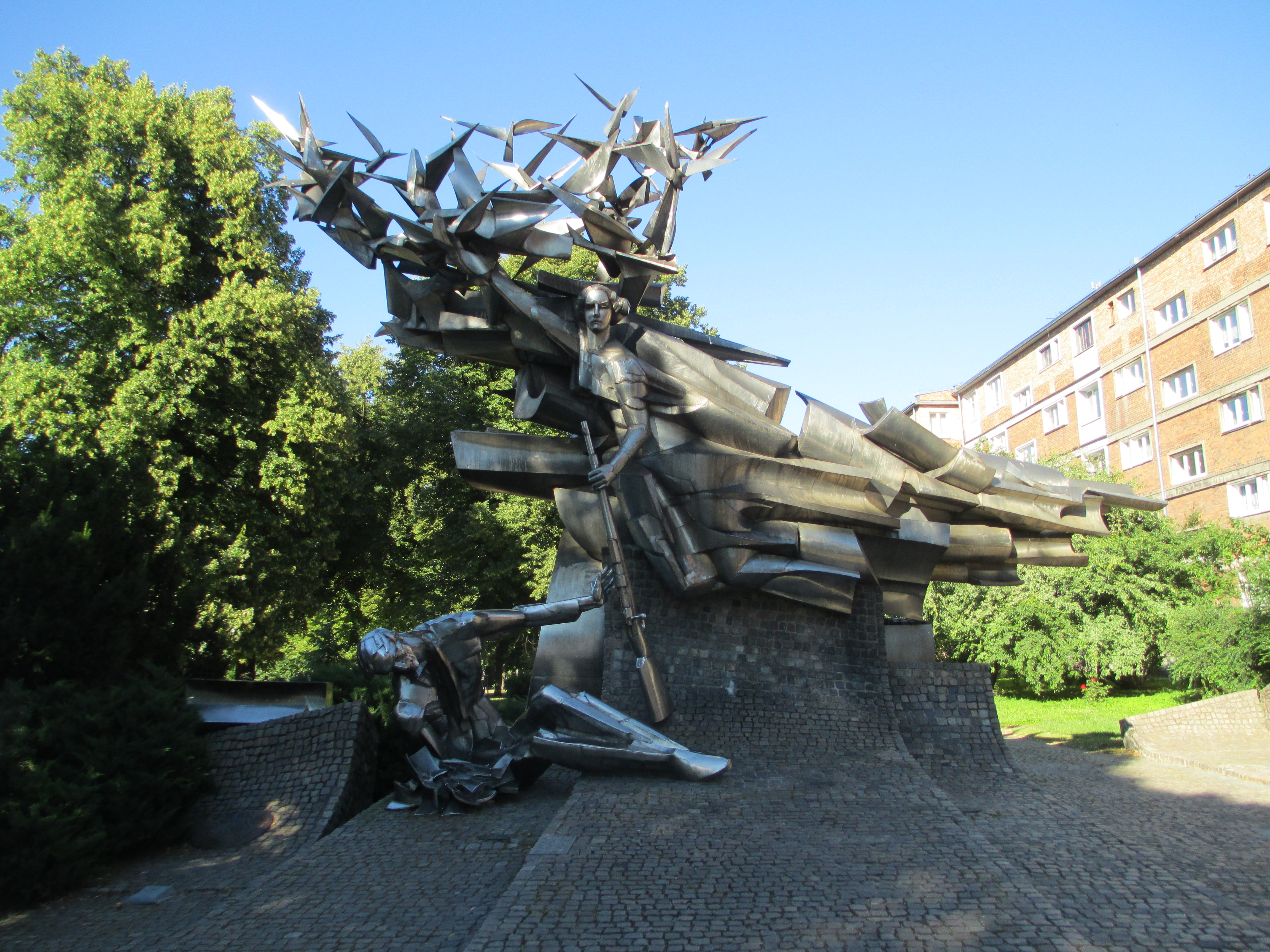 monument to the defenders of the polish post office in gdansk in 1/9/1939